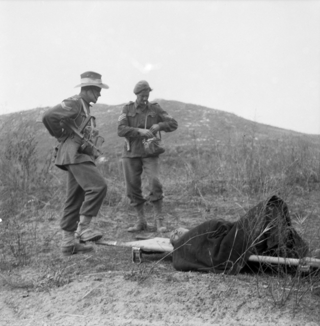 Yongju area, North Korea, 1950-10-22. Covered by a greatcoat, a North Korean soldier lies on a stretcher and awaits medical evacuation after he had been wounded in the Battle of the Apple Orchard by members of the 3rd Battalion, The Royal Australian Regiment (3RAR). Standing with an Owen gun slung over his shoulder, Corporal Mick Hatton (left) casually rests his foot on one of the stretcher's handles. At rear, with a cigarette dangling from his mouth, Sergeant Ian Robertson, an official photographer and member of the Sniper Section, reaches into a bag he has hanging on his shoulder.